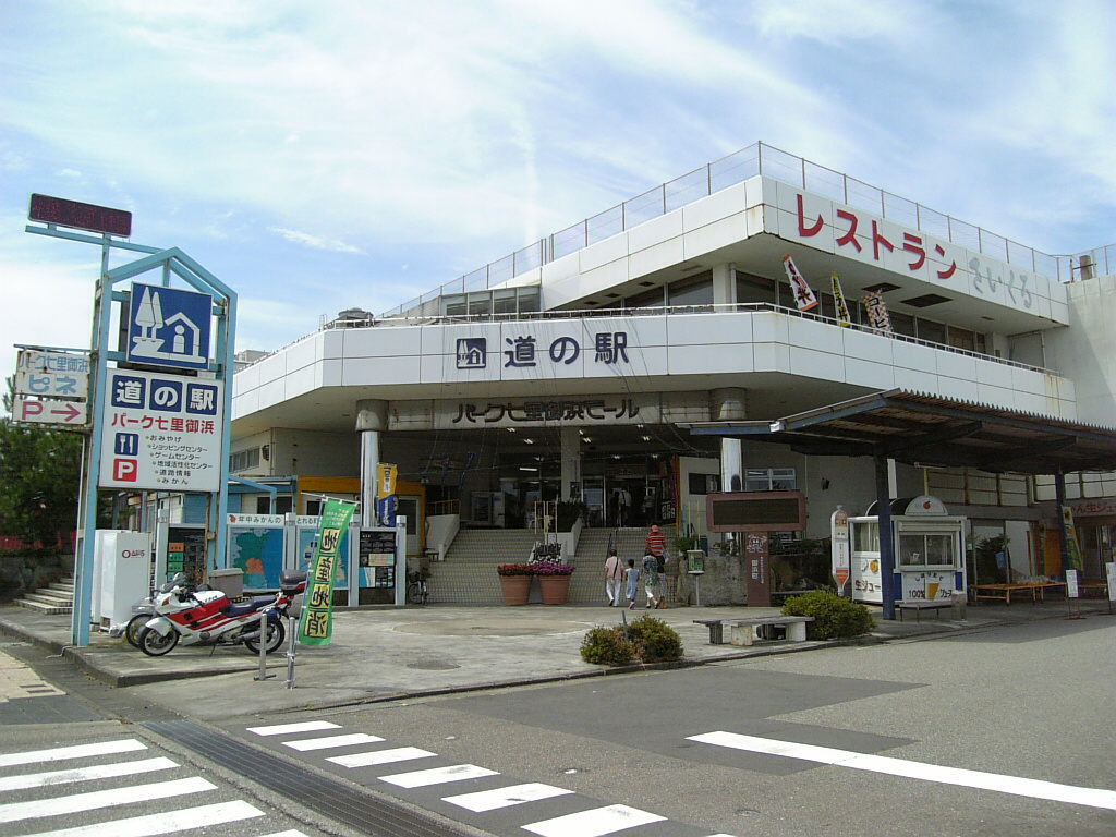 Park_Shitirimihama_a_Roadside_Station in Mie, Japan